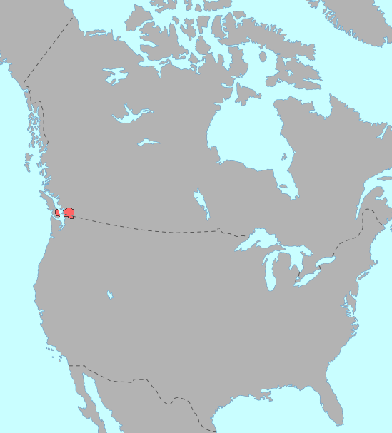 Modified from File:Pomoan langs.png , based on map in Handbook of North American Indians, Volume 7: Northwest Coast.